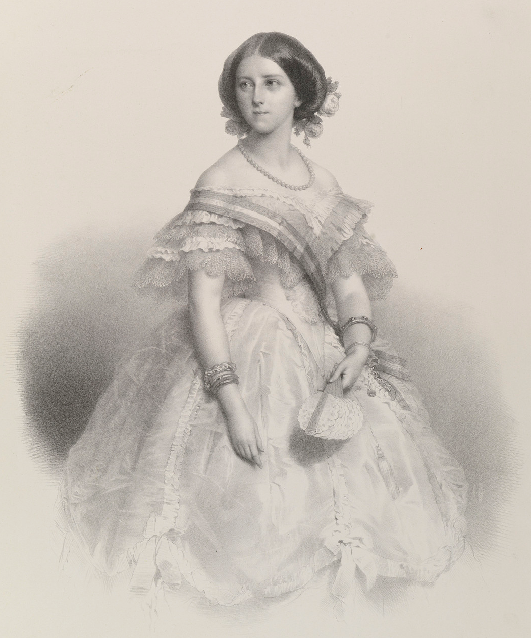 Stephanie of Hohenzollern-Sigmaringen, Queen of Portugal (1837-1859)